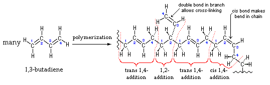 Polymerization of 1,3-Butadiene Chemical reaction diagram showing a small part of a polybutadiene polymer chain formed by polymerization of 1,3-butadiene; examples of 1,2-addition and cis- and trans-1,4-addition of the monomer shown